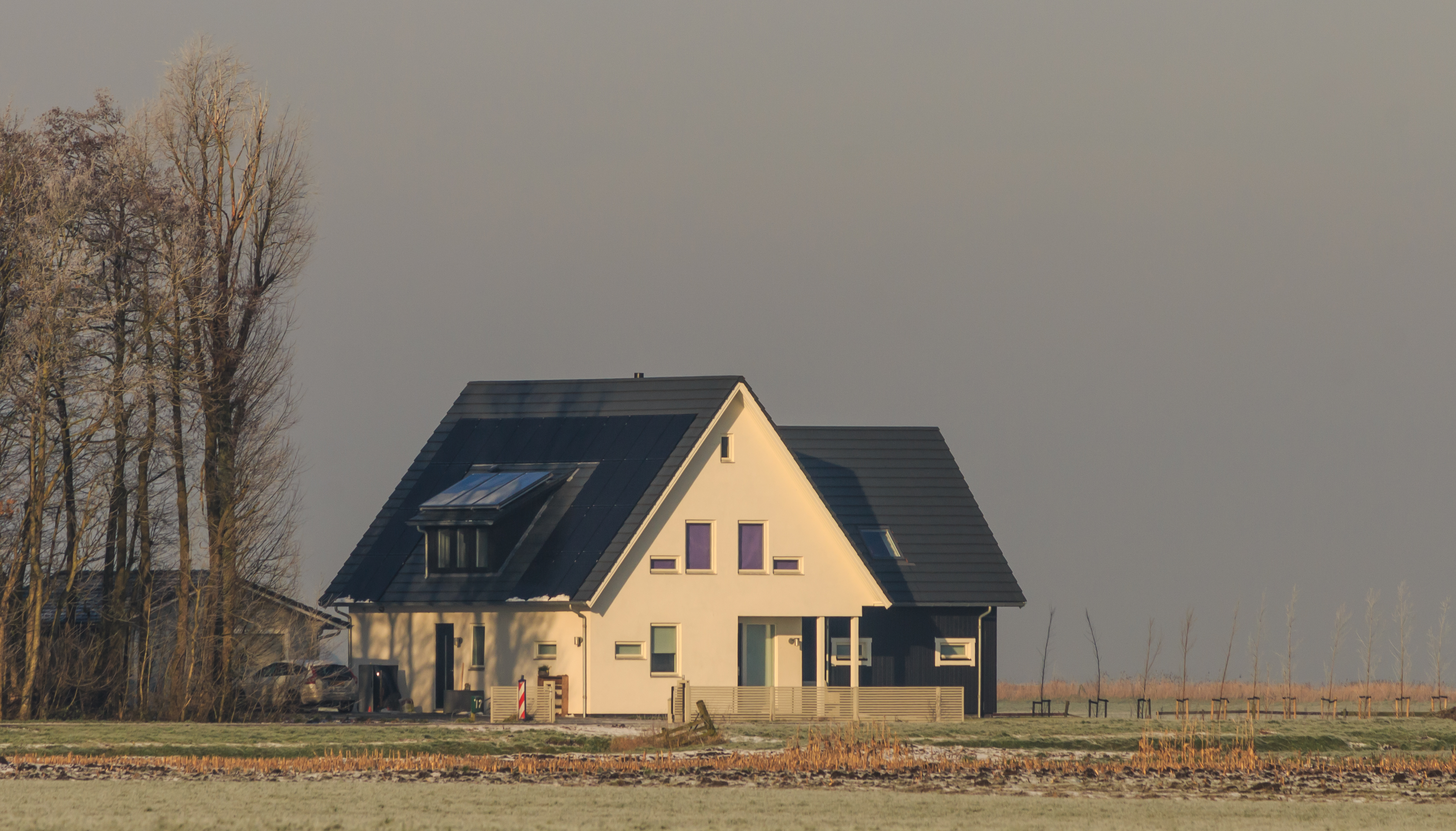 It Súd De Fryske Marren in the Netherlands